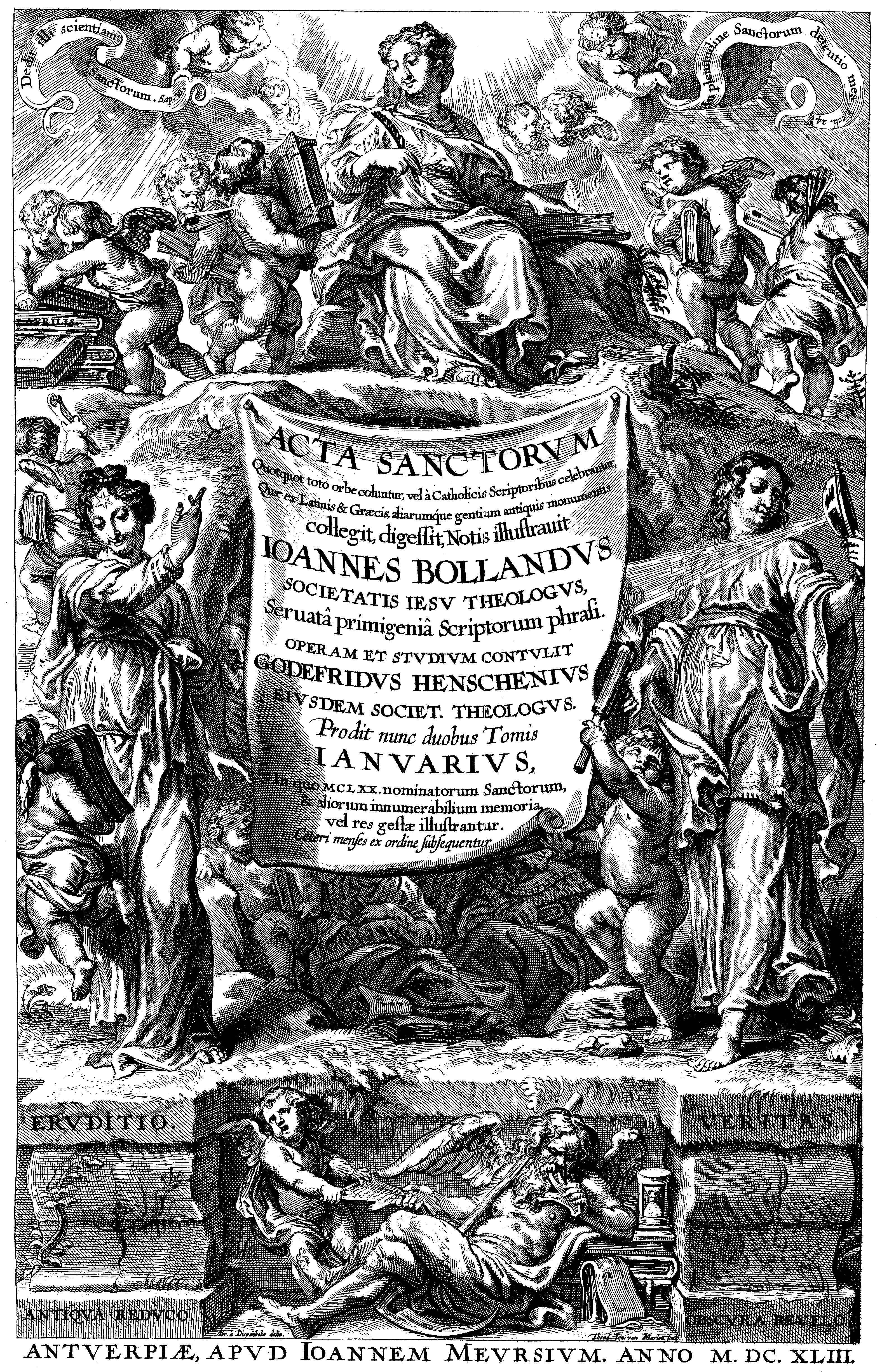 Acta Sanctorum, January volume, published in 1643